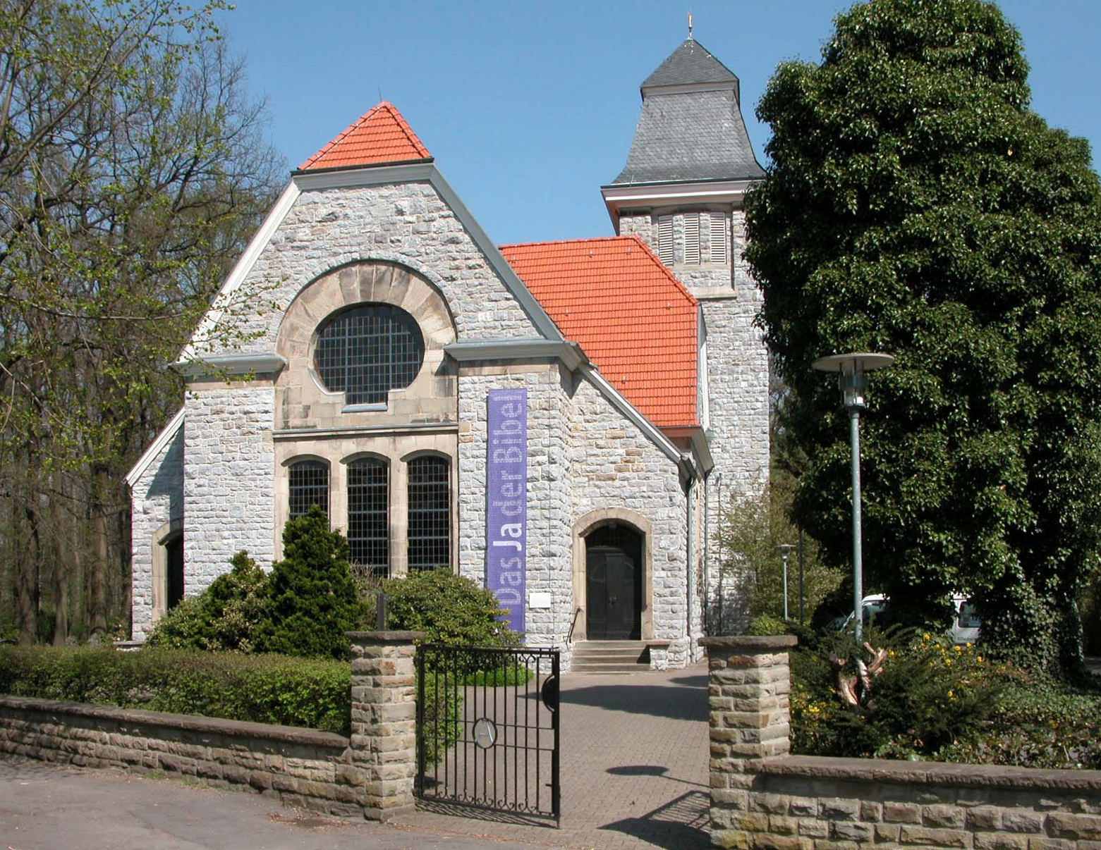 Neanderkirche in Hochdahl, part of Erkrath, Germany.